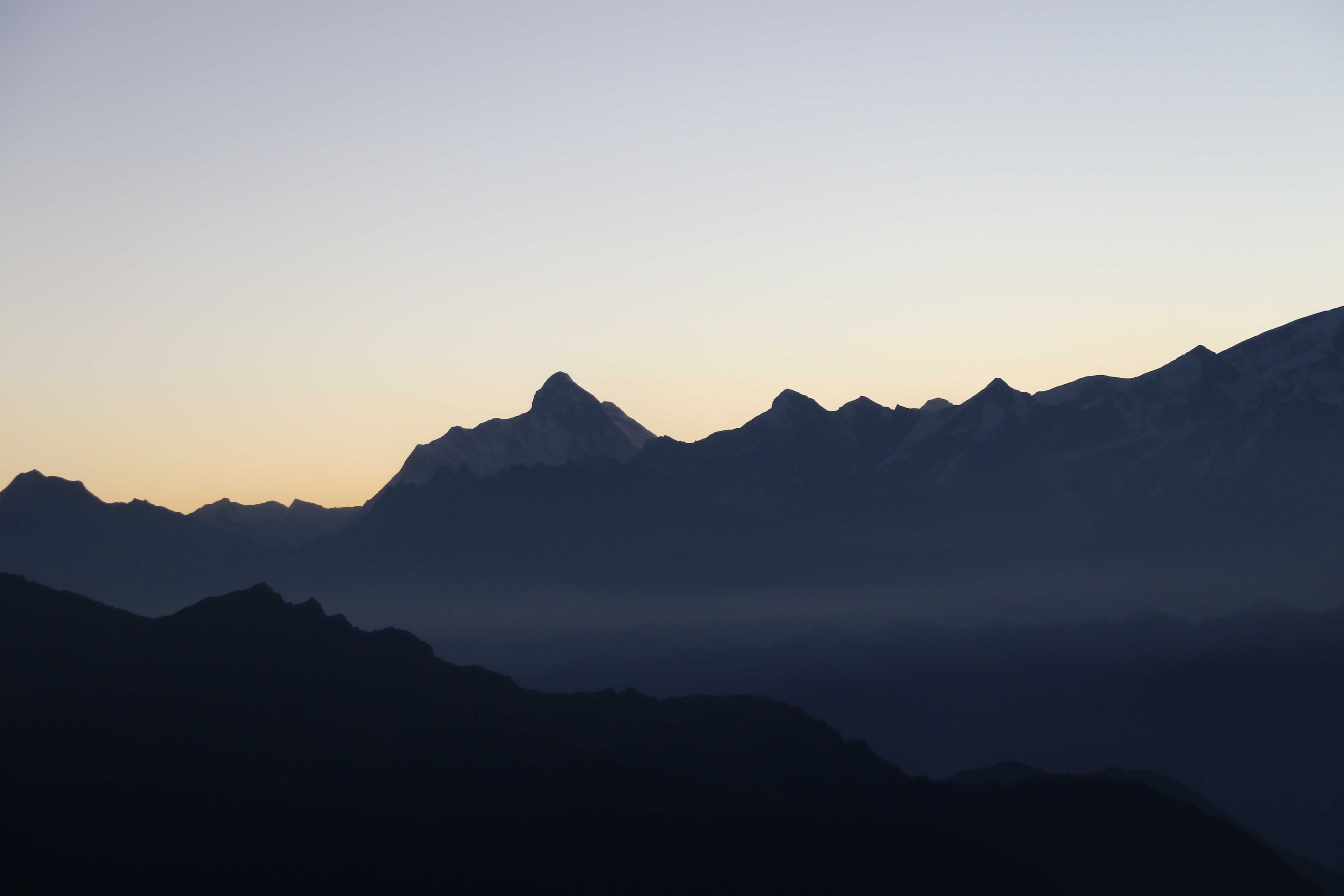 Early morning view of the mighty Nanda Devi from Chandrashila Pk